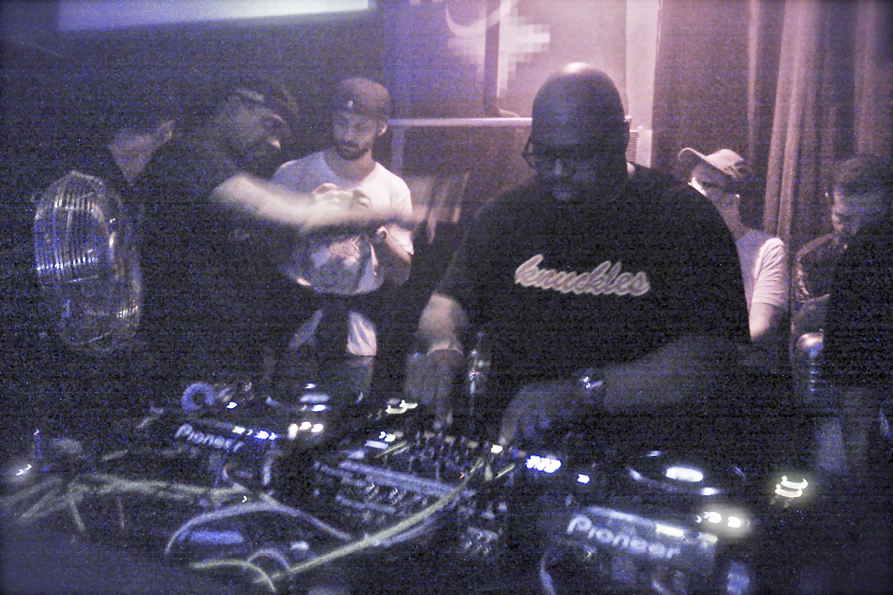 Frankie Knuckles @ Sugar Factory club, 2012.